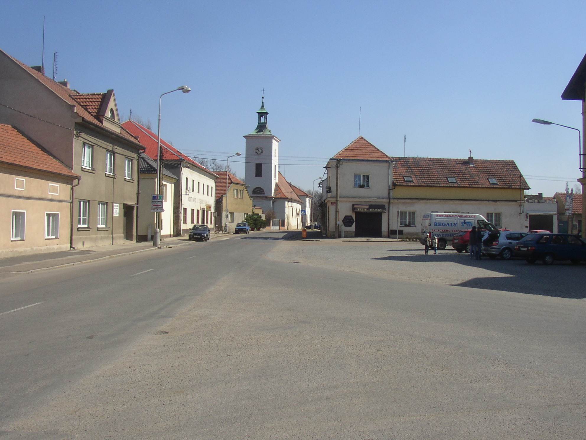 Veltrusy, Mělník District, Czech Republic. A view from Dvořák Square through Palacký Street towards church of Nativity of John the Baptist.